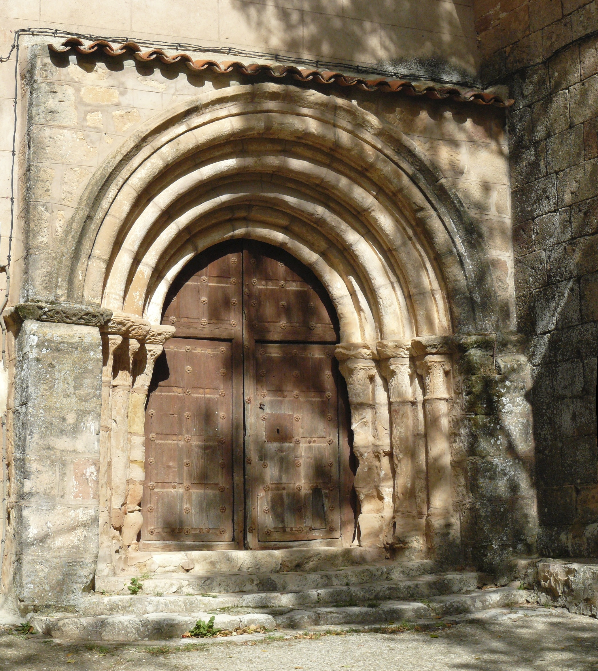 Portico, Romanesque church of the Nativity, Pozancos, Guadalajara (Spain).